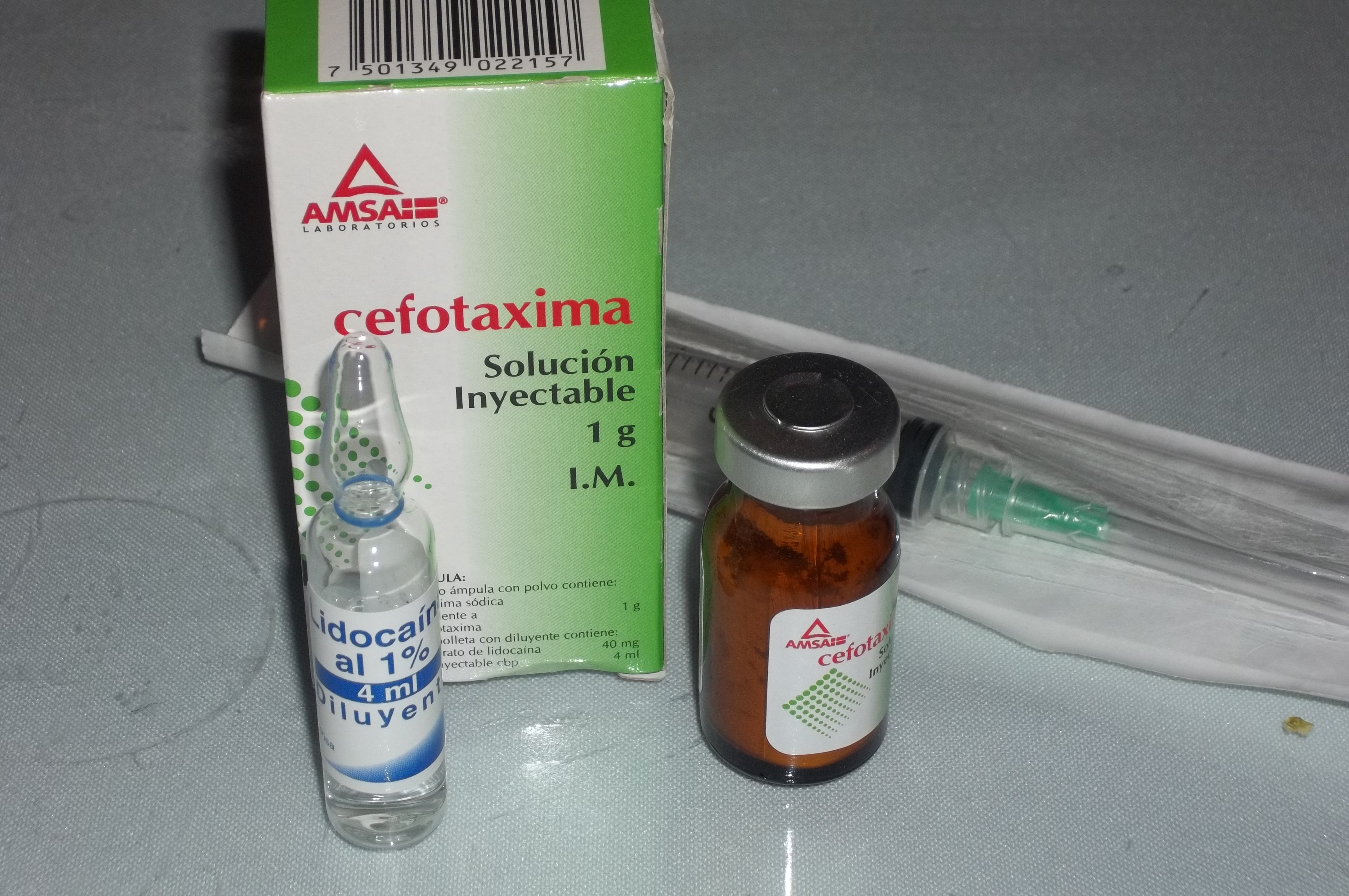 Antibiotic used to treat infections such as salmonella 2013